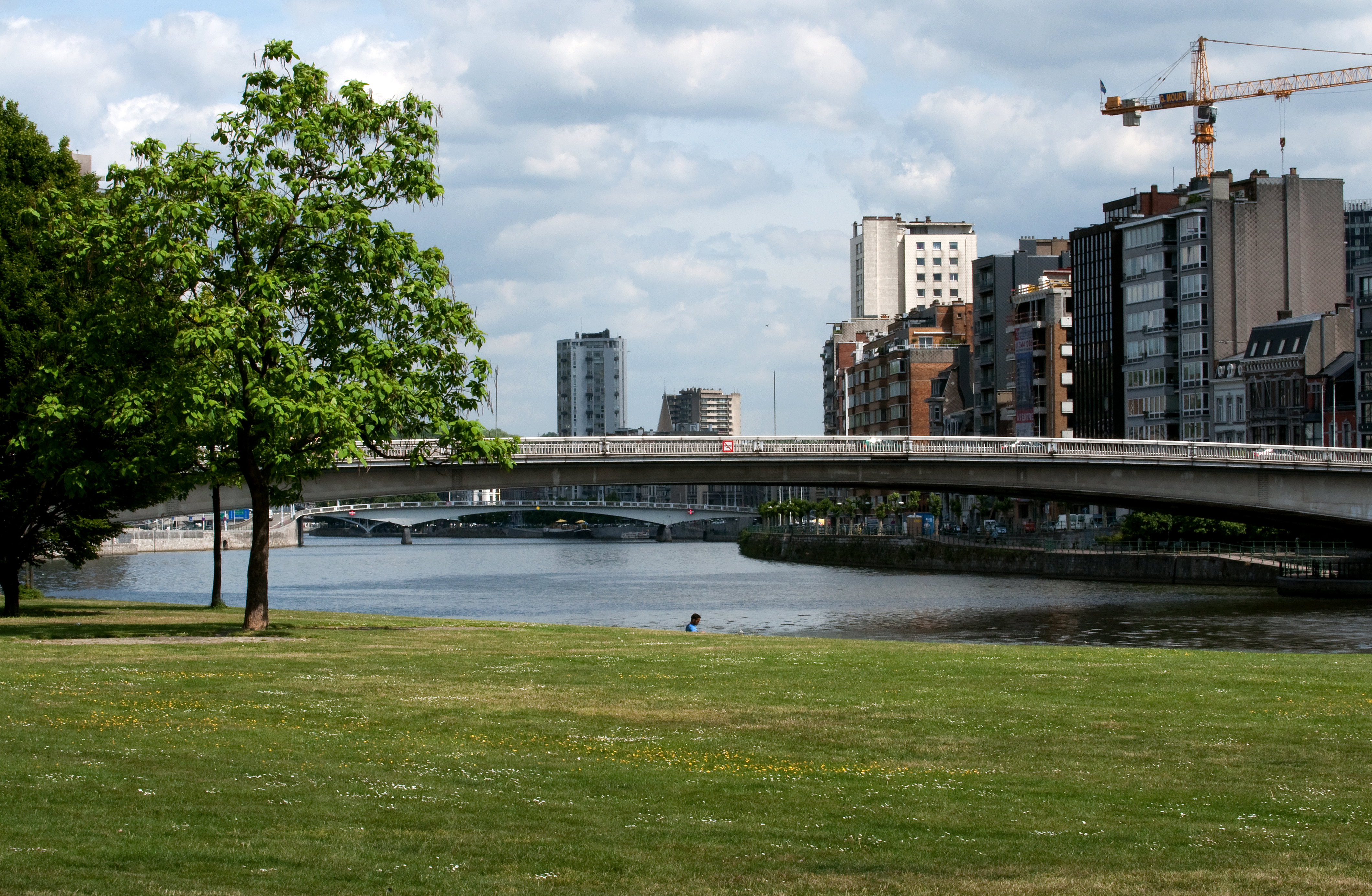 The Meuse river in Liege.